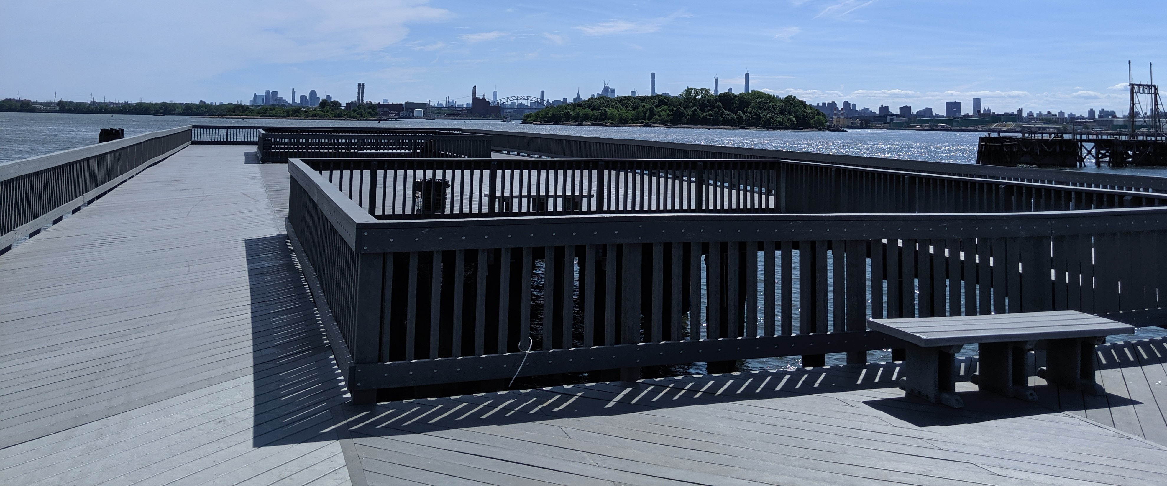 Tiffany Street Pier in the foreground, with North Brother Island near top center and South Brother Island at top left.